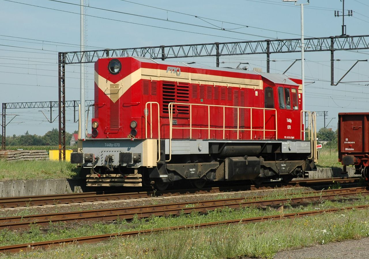 Locomotive T448P-070 of the Polish operator PTKiGK Rybnik, station Chałupki, Poland.